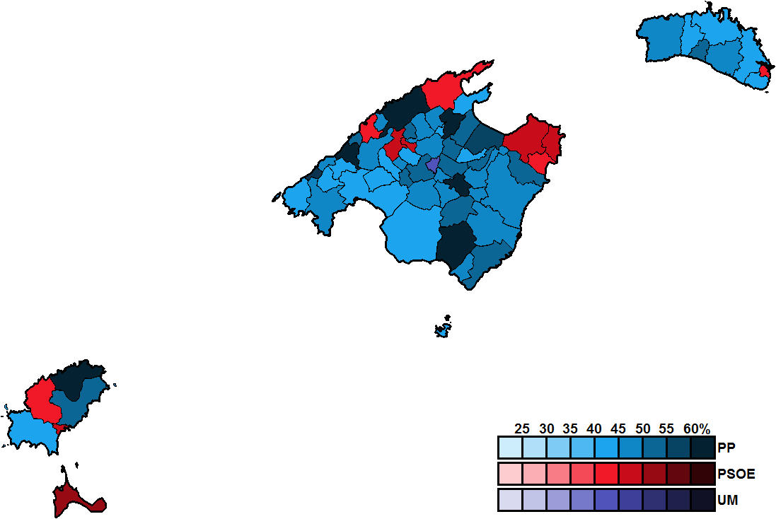 Balearic Islands Spanish Congress Electoral District 1996 Election Municipal Vote Share